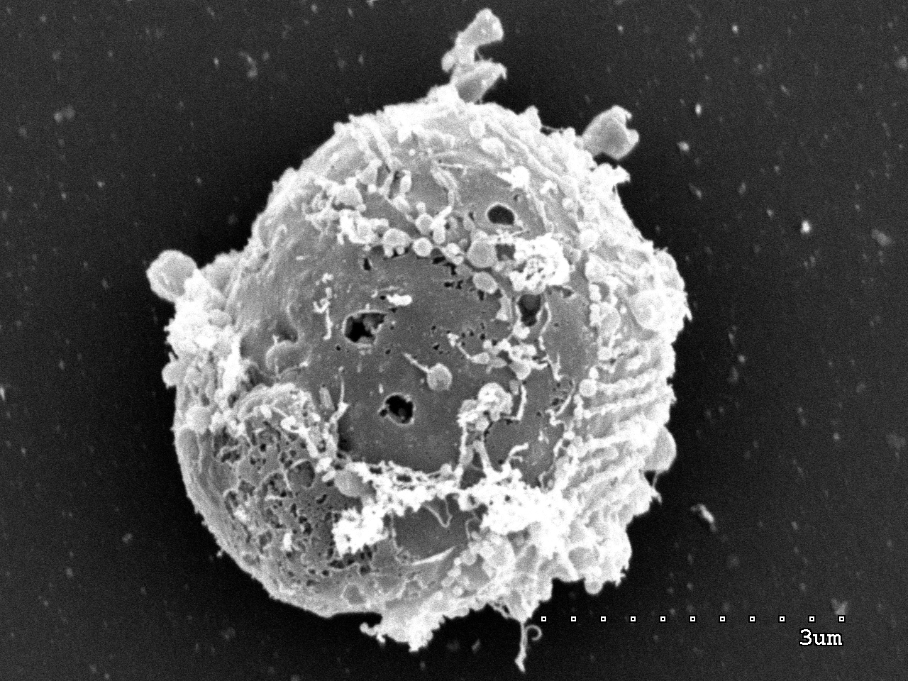 SEM microscopy